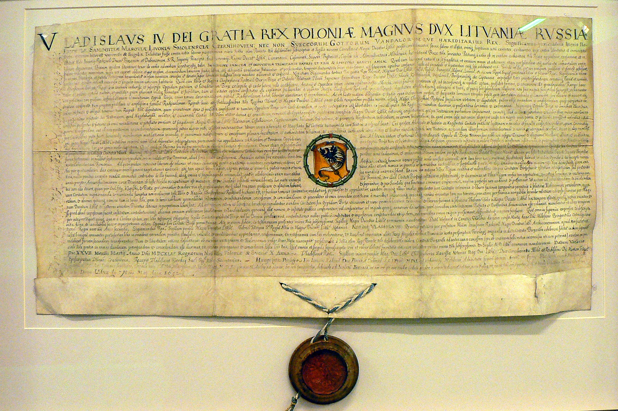 Privilege granted by Władysław Vasa to city of Biržai. Warsaw 1642